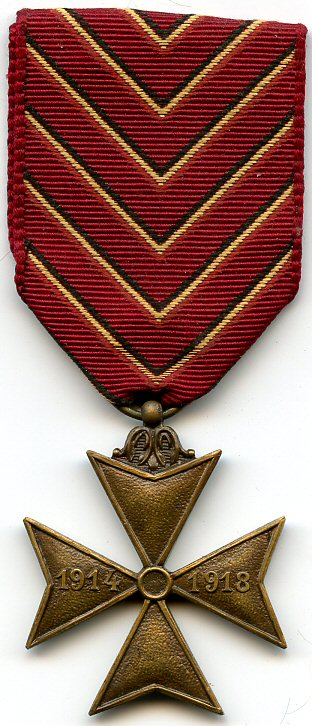 Deportees' Cross 1914-18 (Belgium)